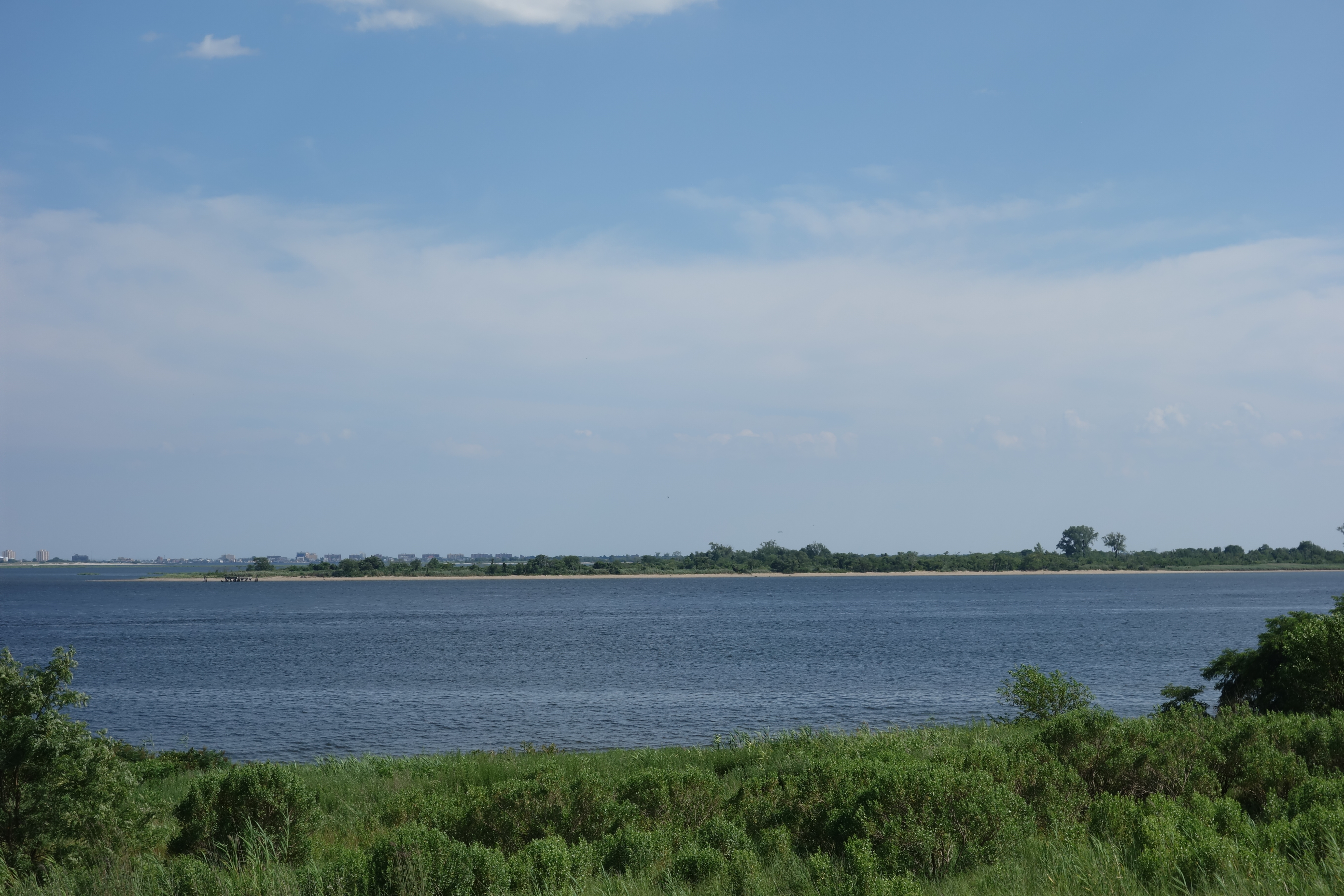 Looking south at Canarsie Pol island in Jamaica Bay from the Peregrine Trail at the south end of the Penn Park section of Shirley Chisholm State Park, south of the Belt Parkway and Pennsylvania Avenue across from Starrett City in Spring Creek, Brooklyn.